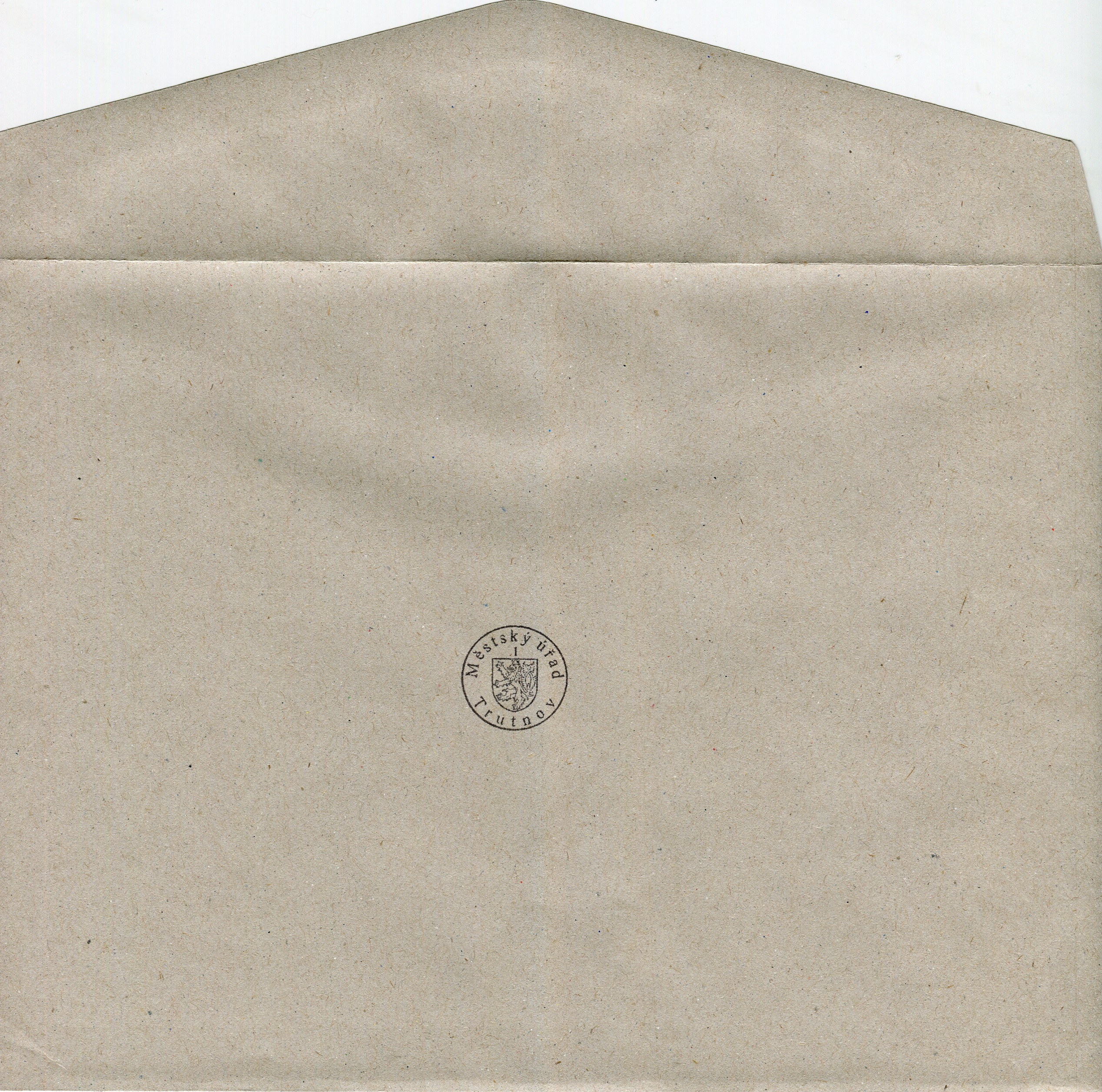 Voting envelope used during the presidential election of 2018